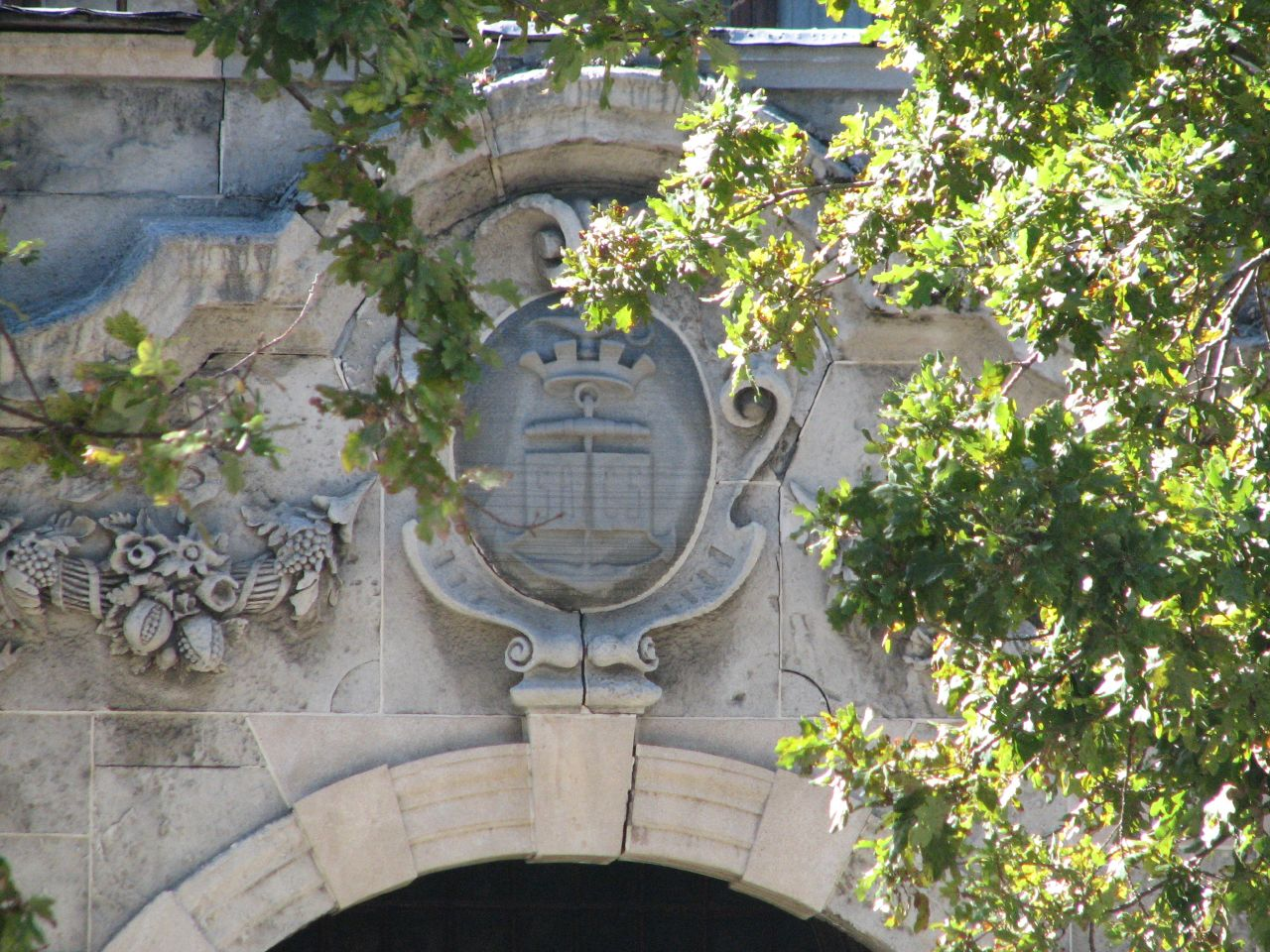 SACS sign - Cape Town